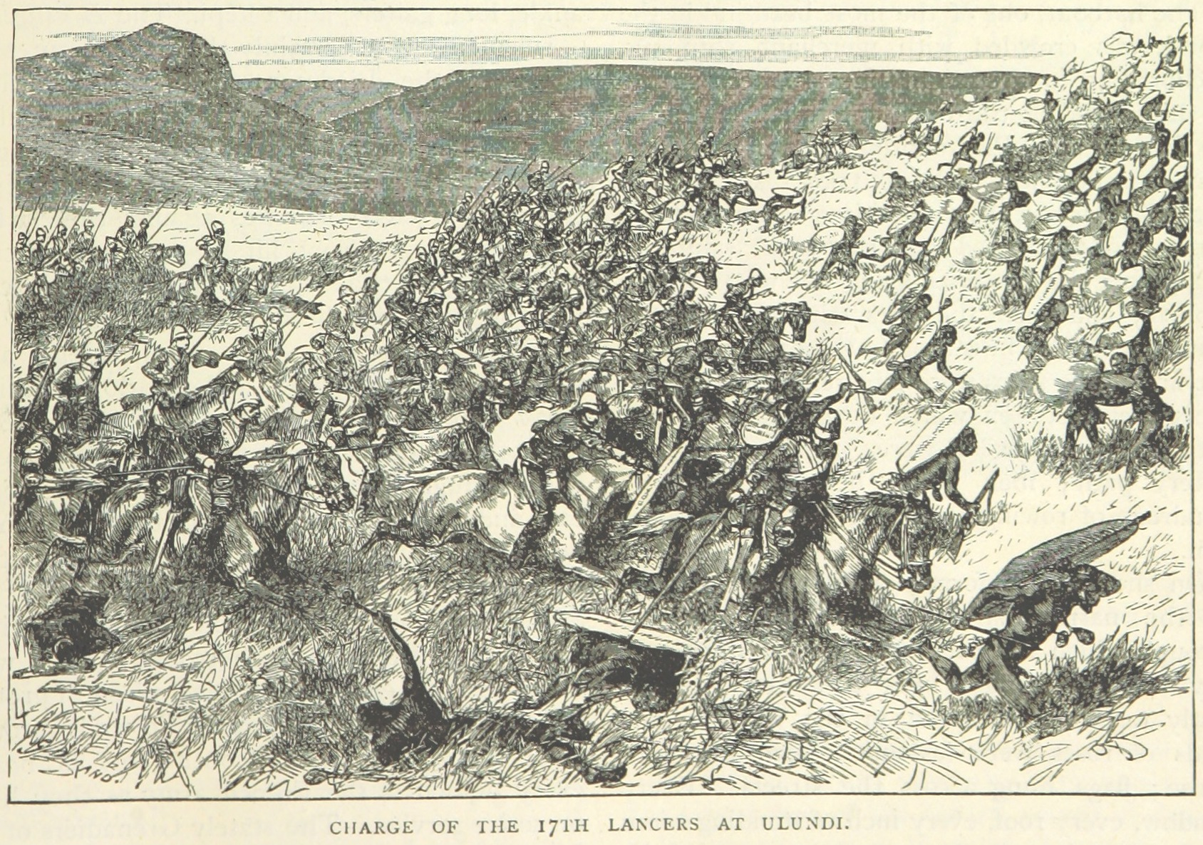 The 17th Lancers charge the Zulus at the 1879 Battle of Ulundi.